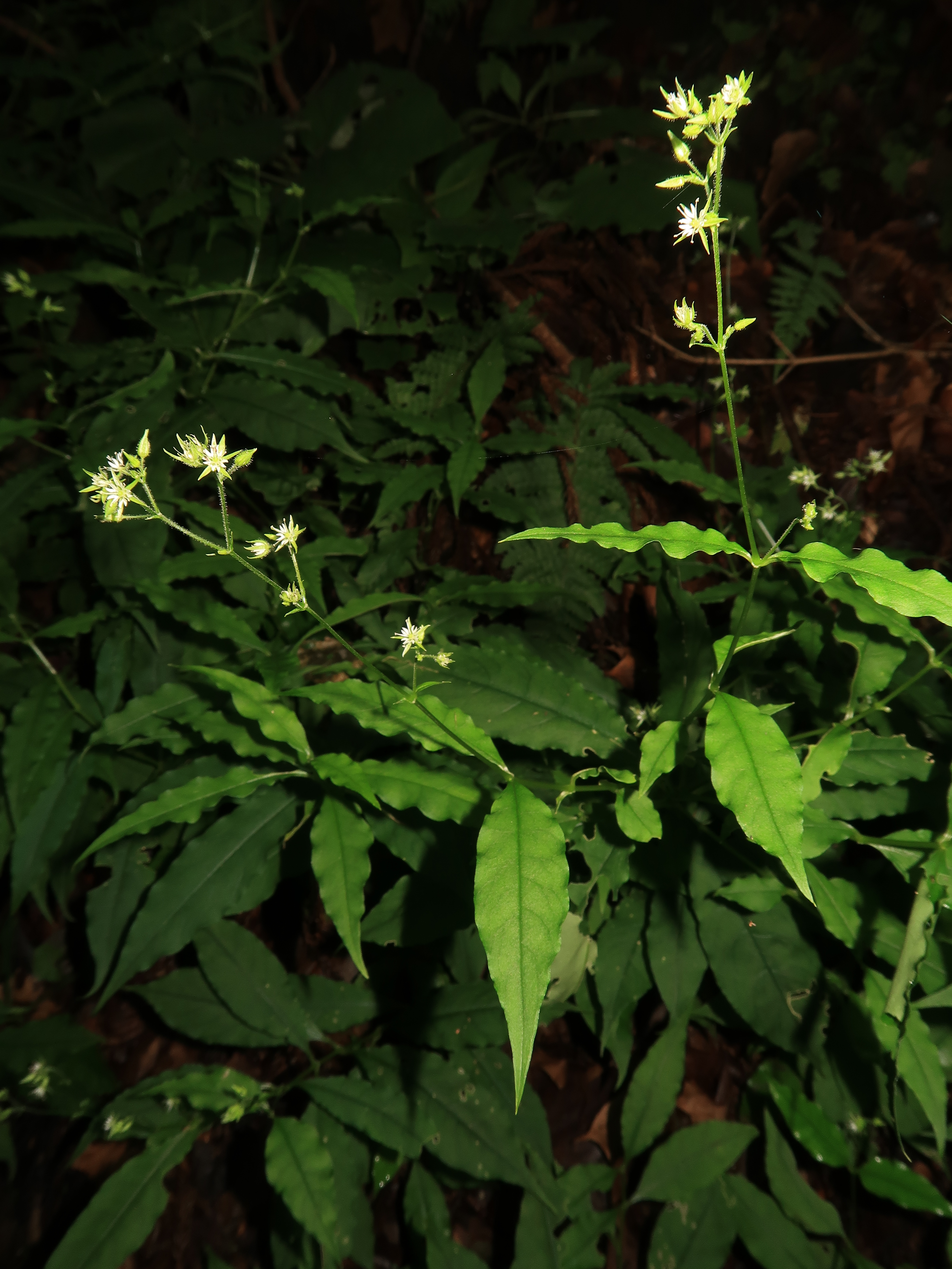 Stellaria monosperma var. japonica, Hama-dori area, Fukushima pref., Japan